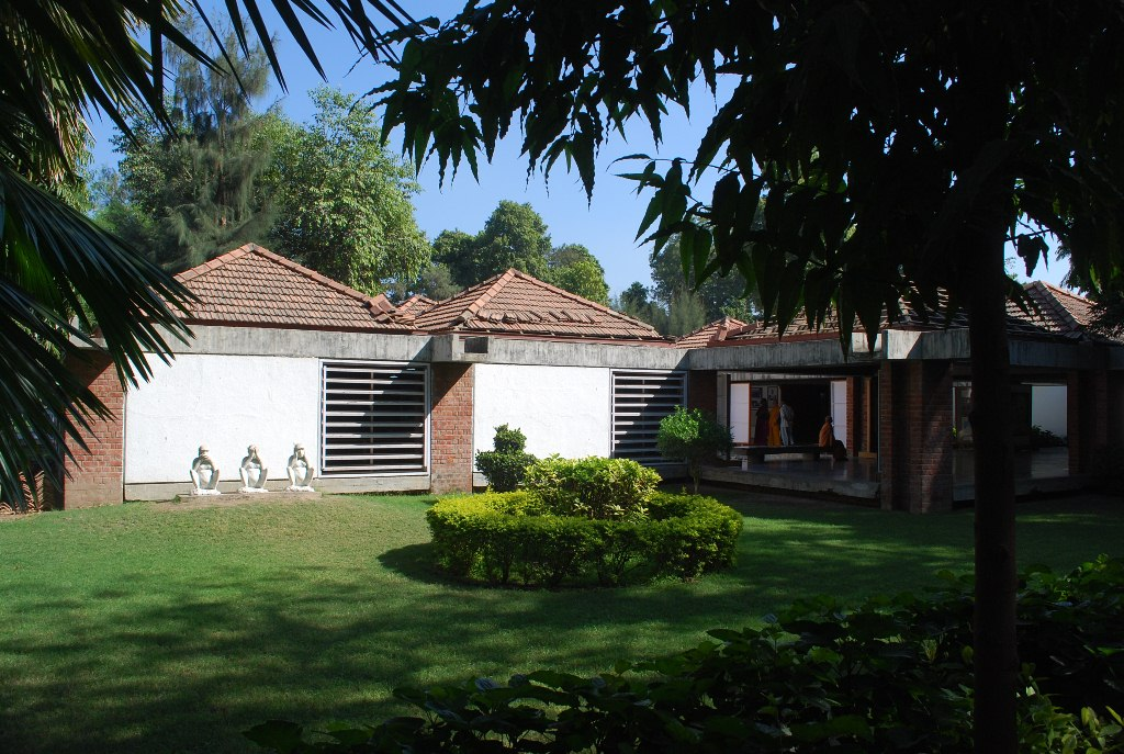 Gandhi Smarak Sangrahalay at Sabarmati Ashram, Ahmedabad